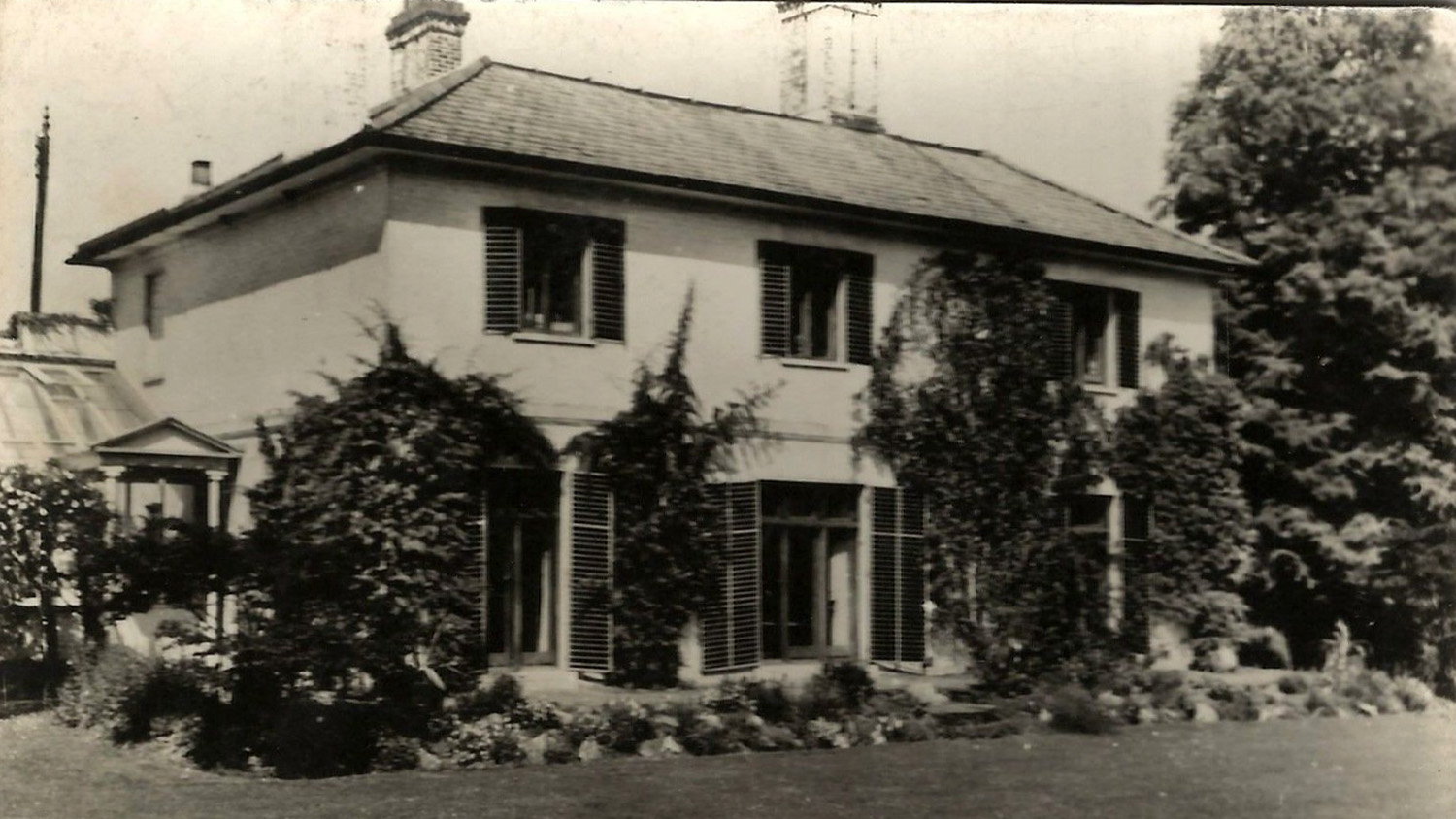 Debden House, Laughton circa 1920